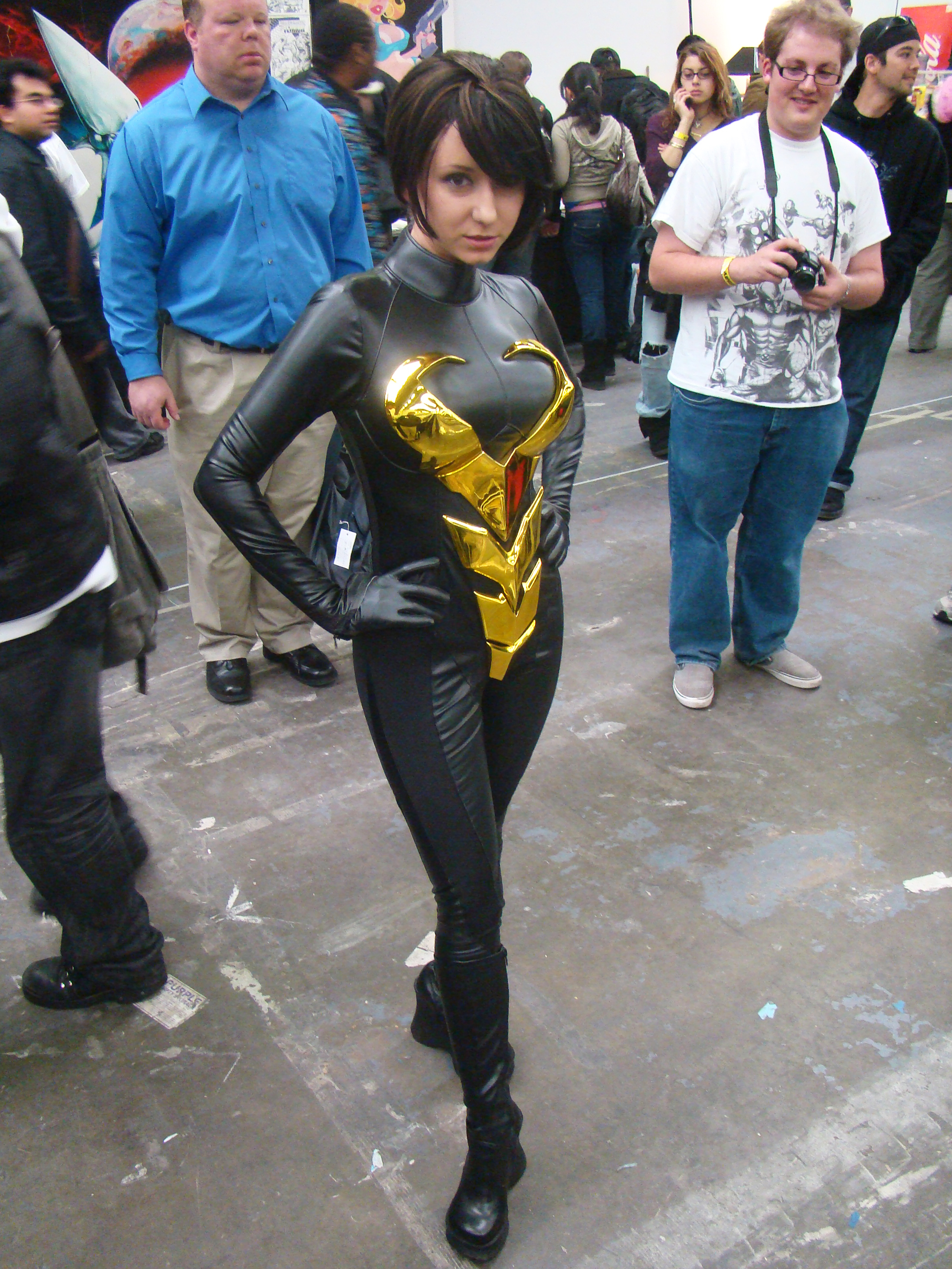 This Wasp costume blew my mind for two reasons: 1. this lady made the costume herself, including the pastic panels (though she said she had to send them to someone to make them gold-plated) which always gets big points from me. 2. the costume includes slits for her wings to come out of. When someone asked where her wings are, she replied that they're not sticking out since she's not at full size. AMAZING! More info here. Big Apple Con, Saturday October 17, 2009. New York City. A big thanks for everyone at the Con who let me take their picture. If you see yourself in my pictures let me know at: loser [at] istolethe [dot] tv.